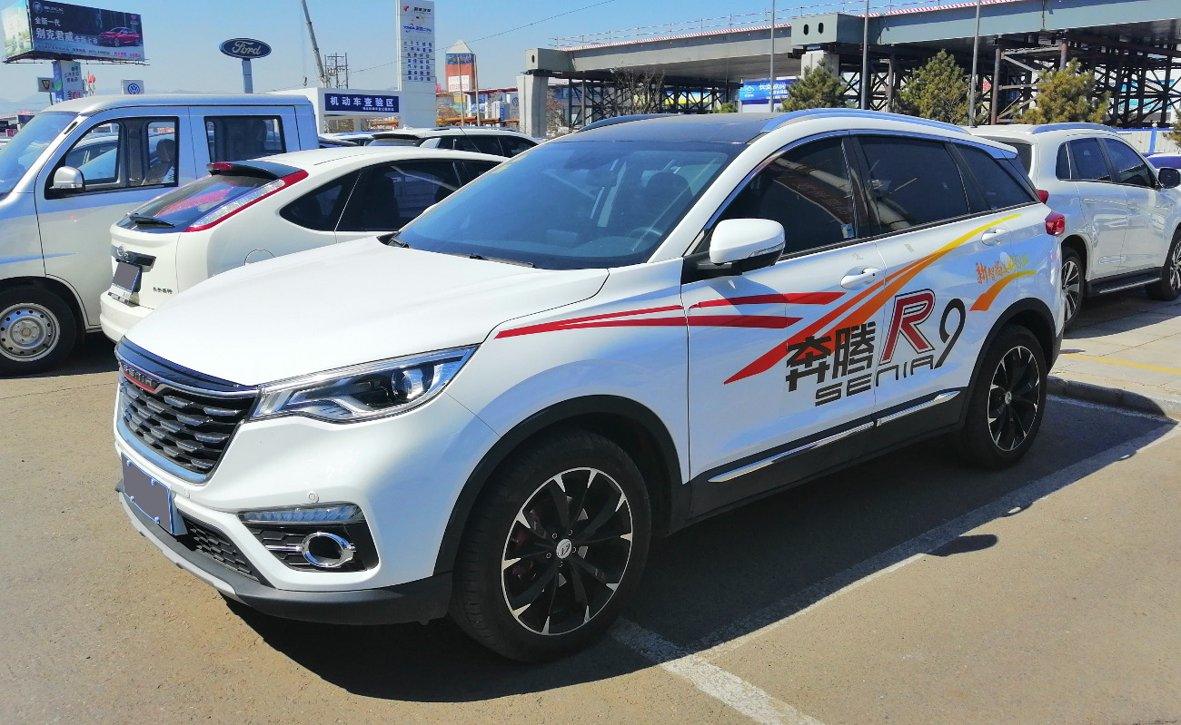 FAW Senia R9 photographed in Hohhot, Inner Mongolia autonomous region, China.